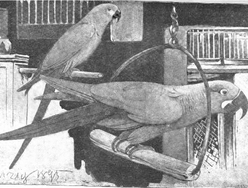 Monochrome illustration of Glaucous Macaw (foreground) with Spix's Macaw in a Hamburg dealer's premises by Karl Neunzig in 1895.